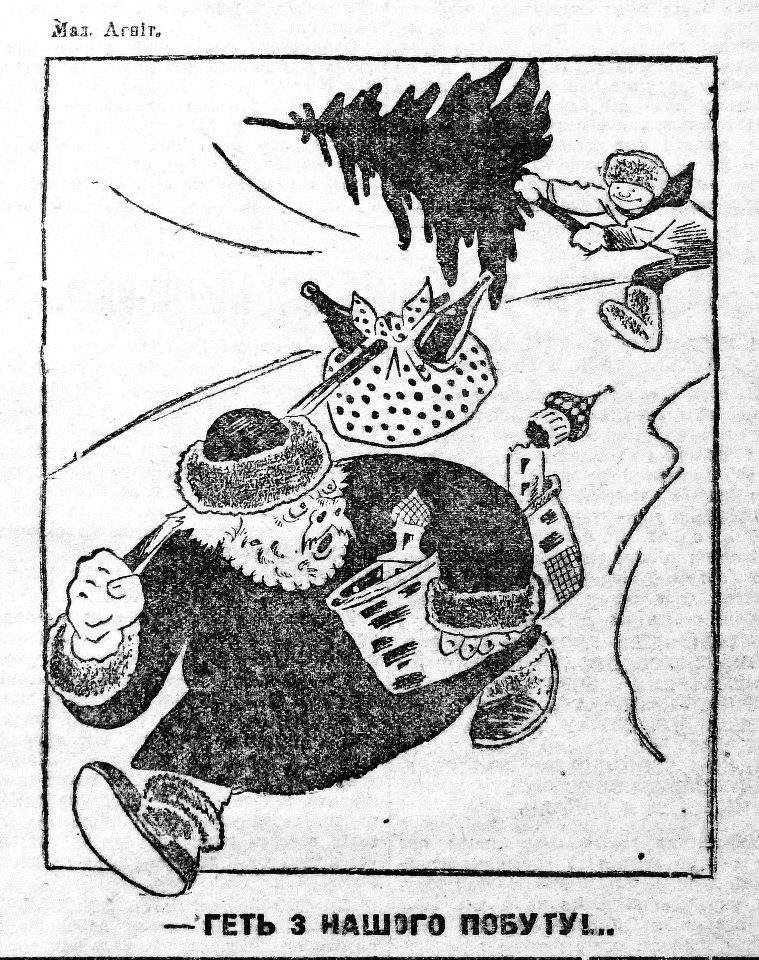 Bolshevik propaganda in Ukrainian against Santa Claus.